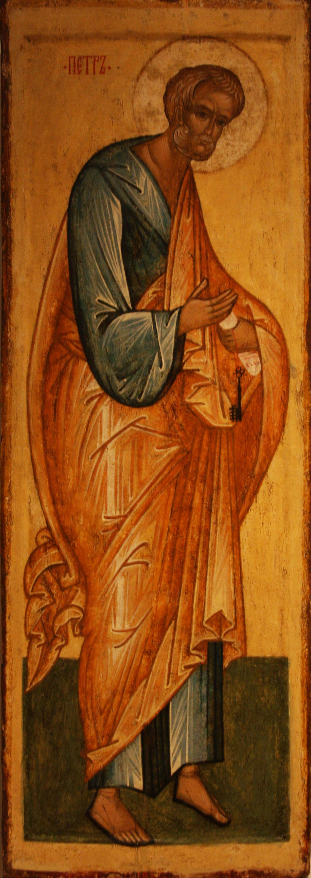 Russian icon of St. Peter, c. 1500. National Museum, Stockholm.